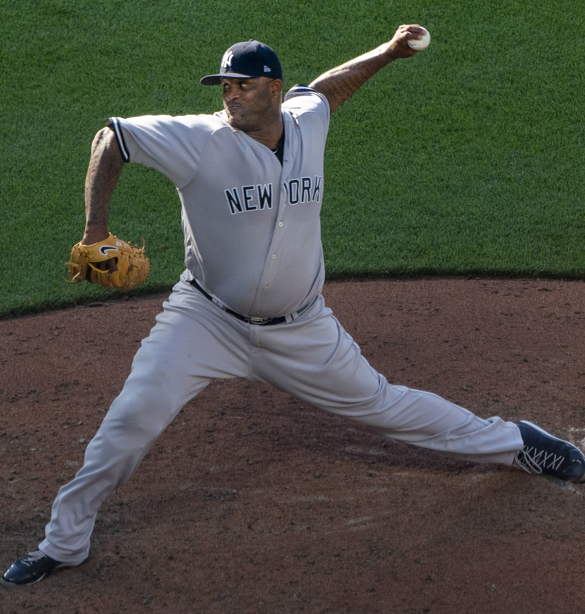 CC Sabathia of the New York Yankees pitches in a game against the Baltimore Orioles at Oriole Park at Camden Yards on July 9, 2018 in Baltimore, Maryland.